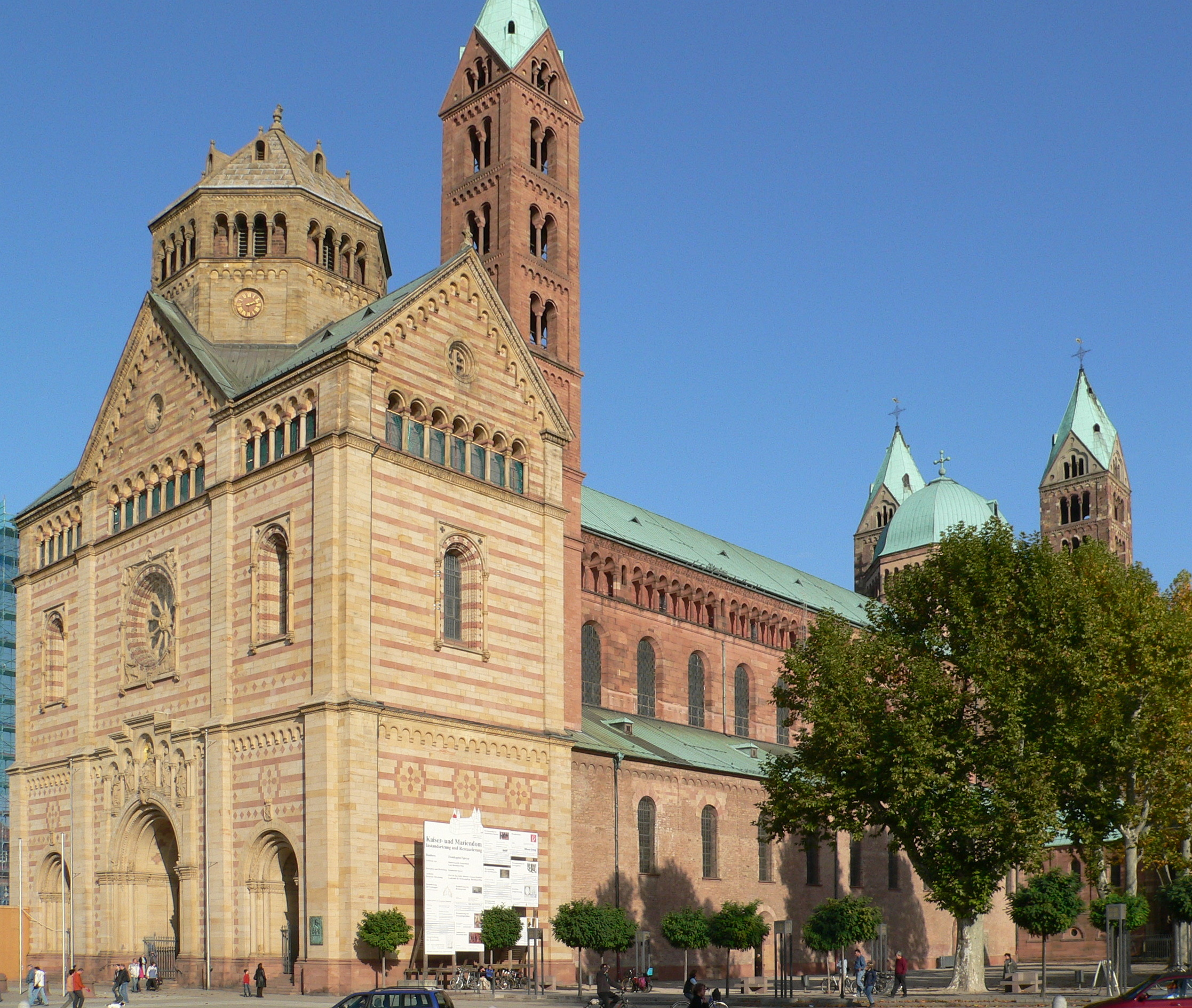 View From South West To The Cathedral Of Speyer